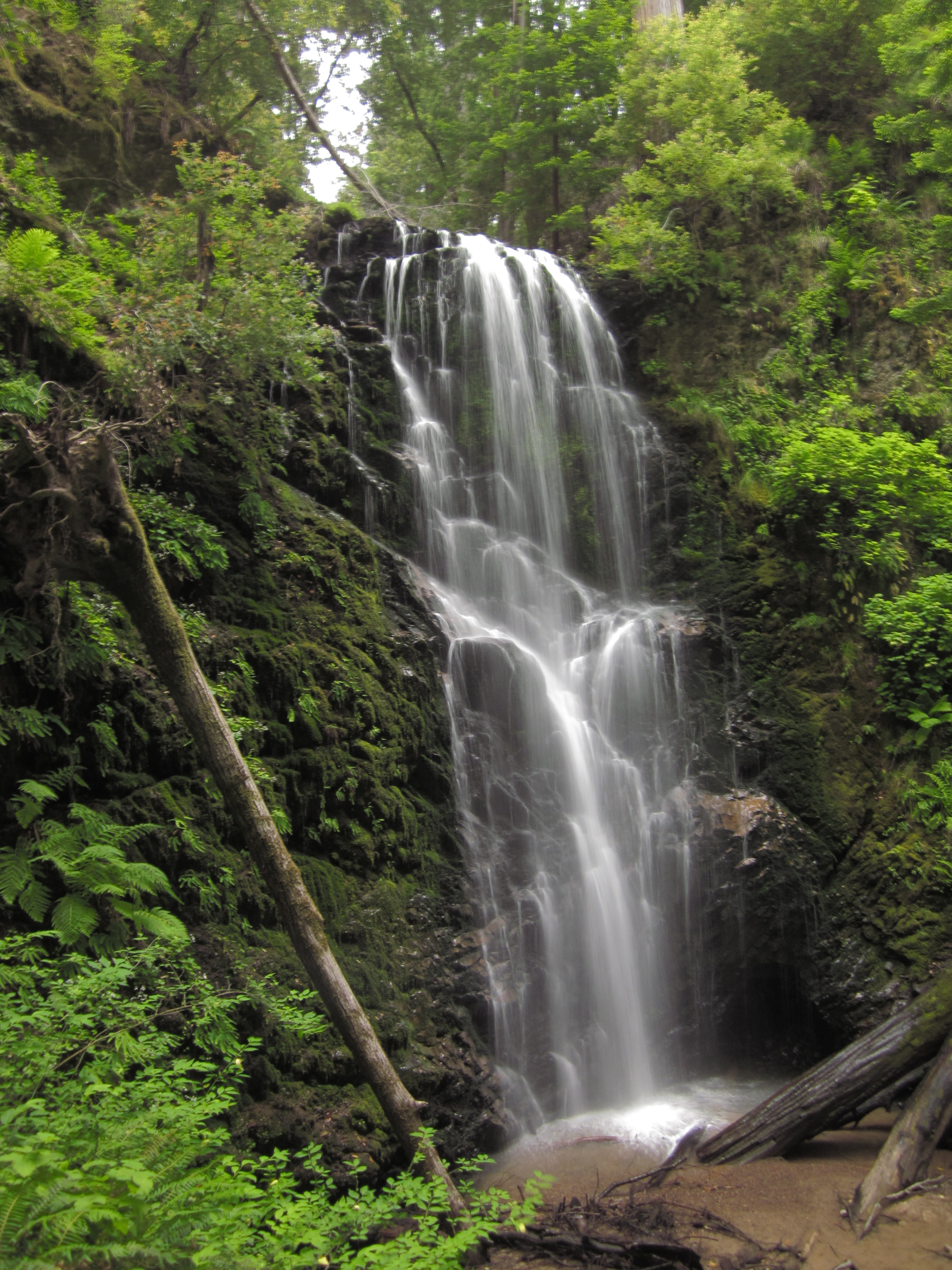 Berry Creek Falls, Big Basin Redwoods State Park, California USA.